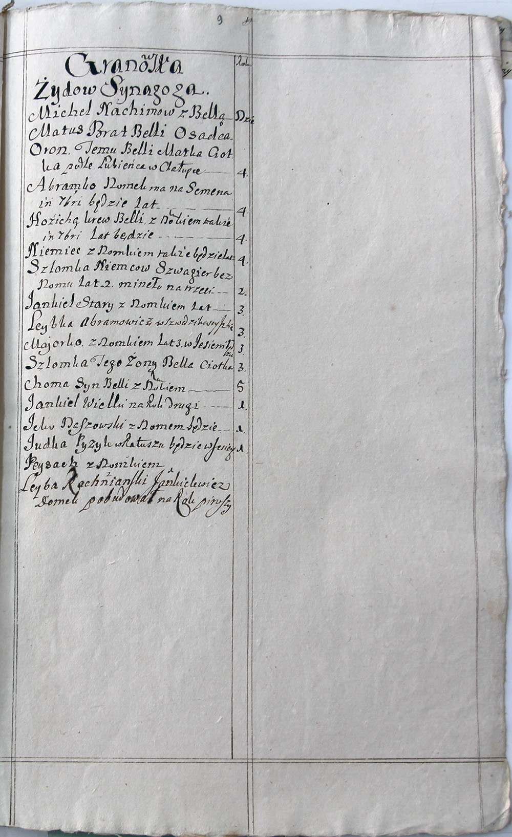 Перепис євреїв Гранова 1722 року